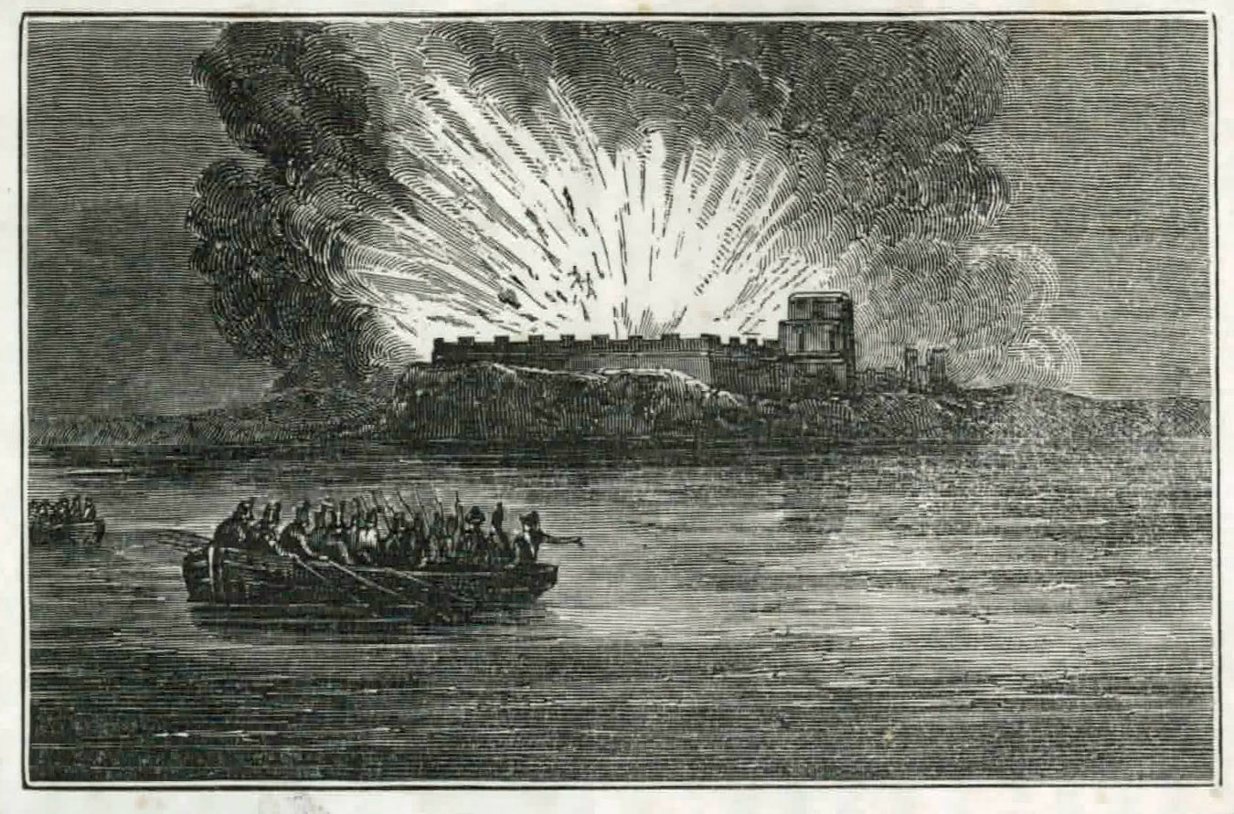 The Battle of Pensacola (1814). Pictorical representation about the destruction of the fort Barrancas, in Pensacola, by the British and of his escape.